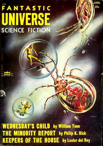 Cover of Fantastic Universe, January 1956